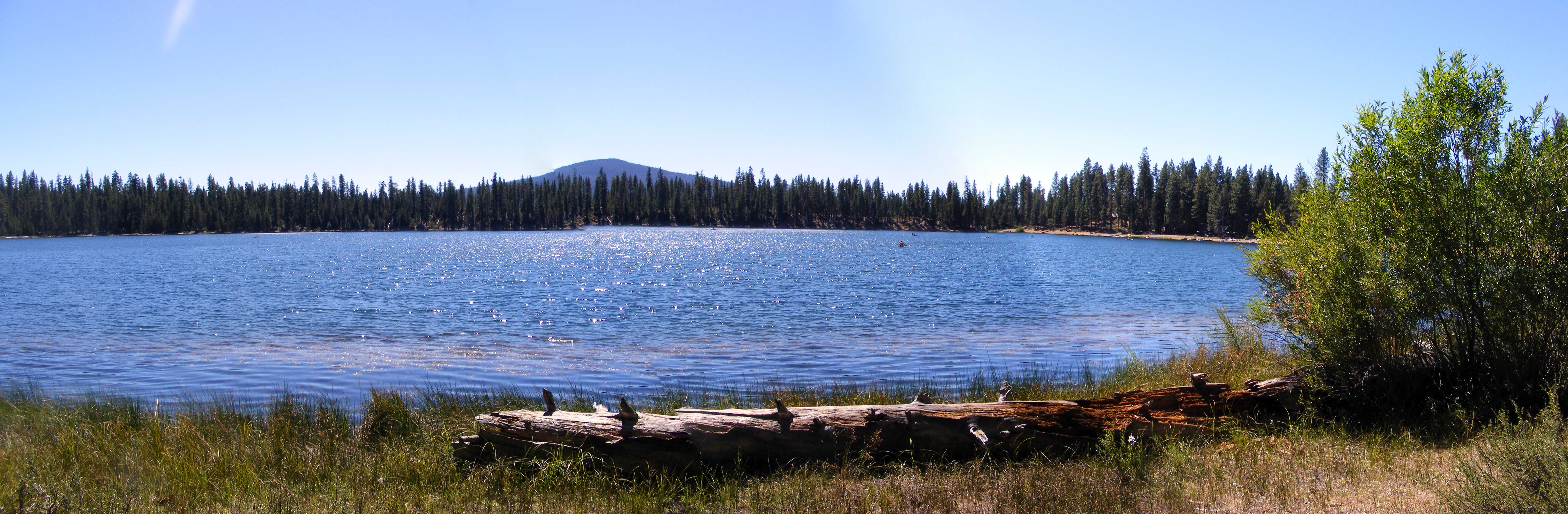 Panorama of South Twin Lake, a small natural lake in the Deschutes National Forest in Deschutes County, Oregon, USA